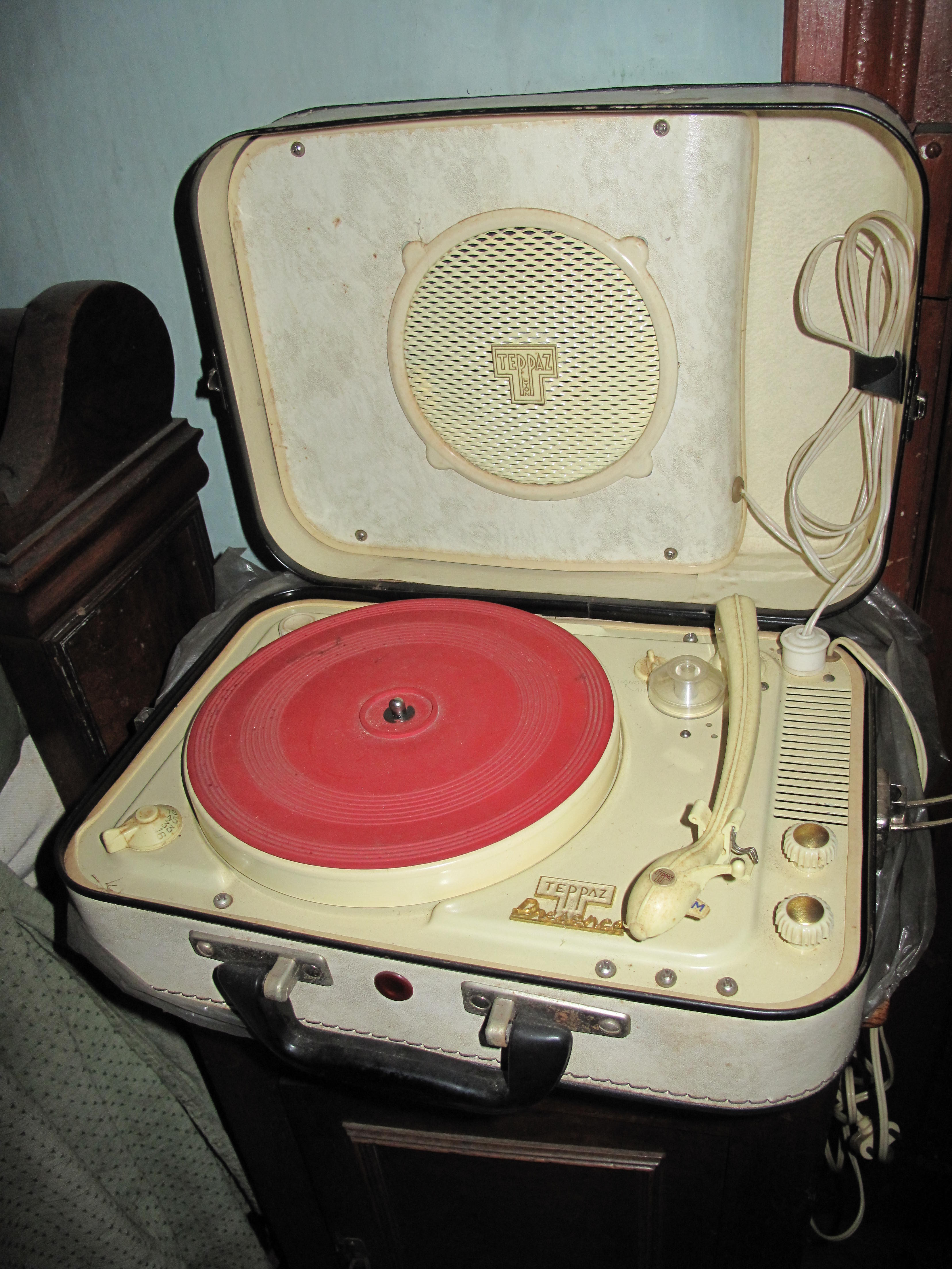 Disk player of the French brand Teppaz. France, 1960's.